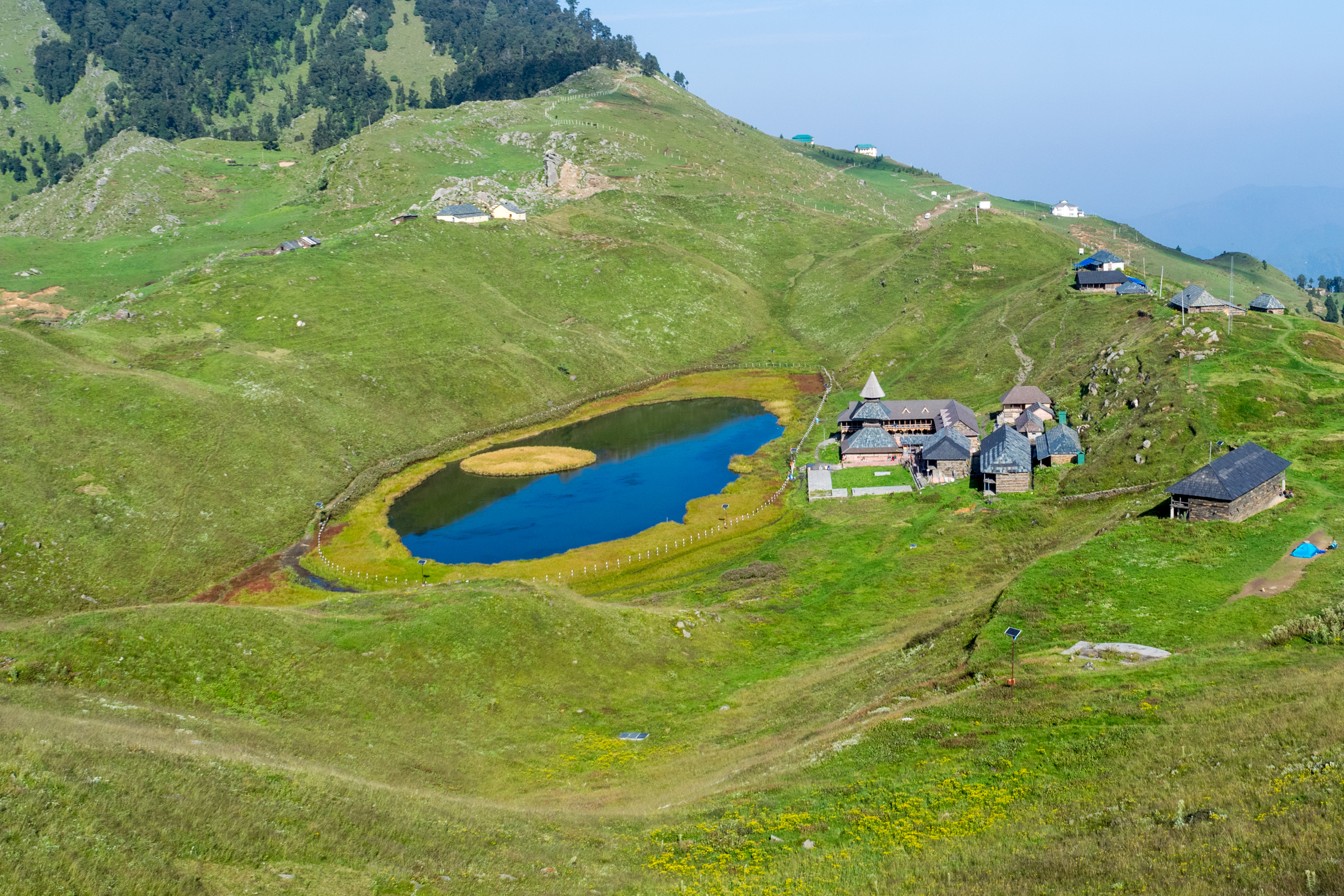 Himalayan foothills India